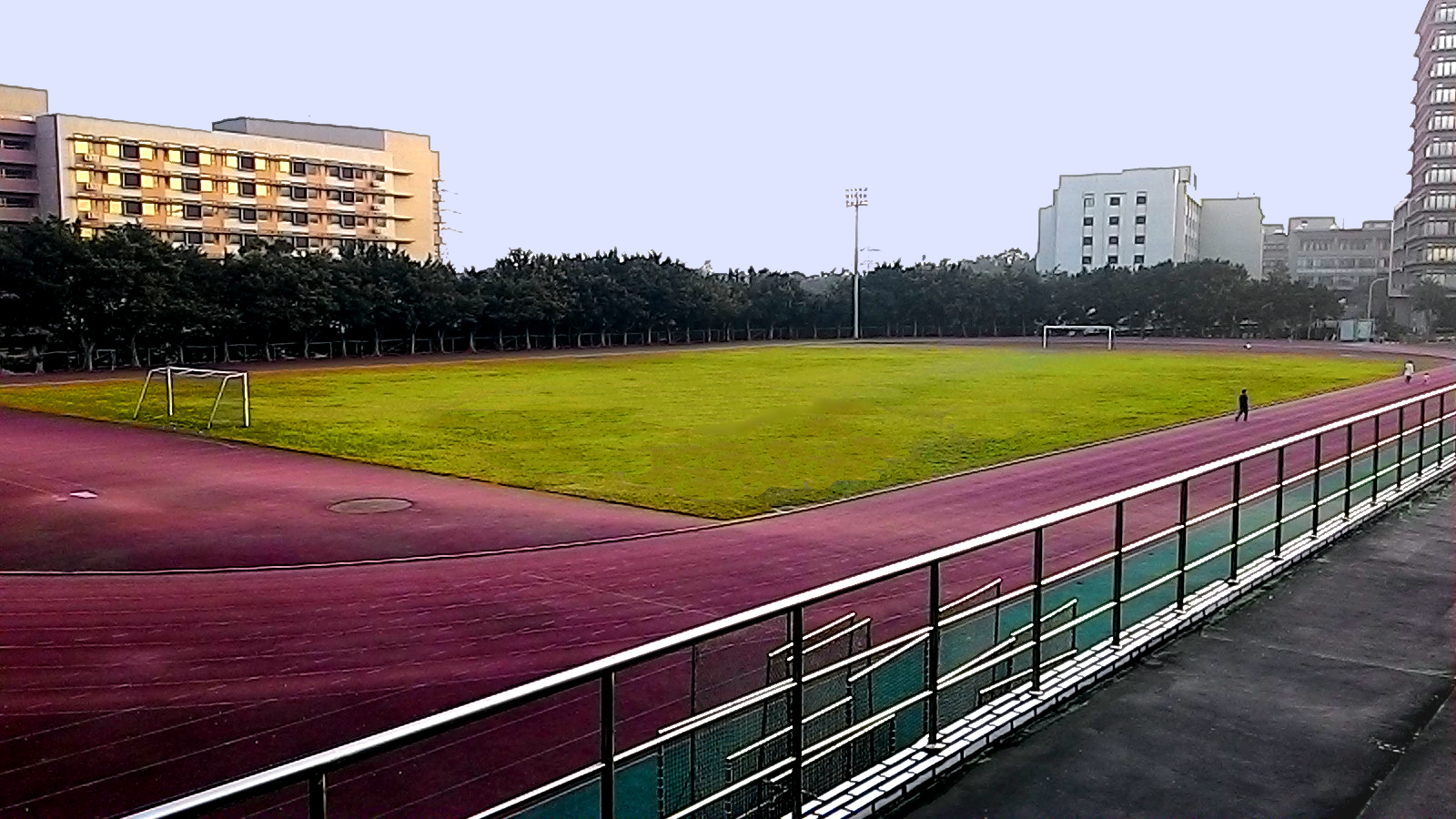 the playground of Chang Gung University